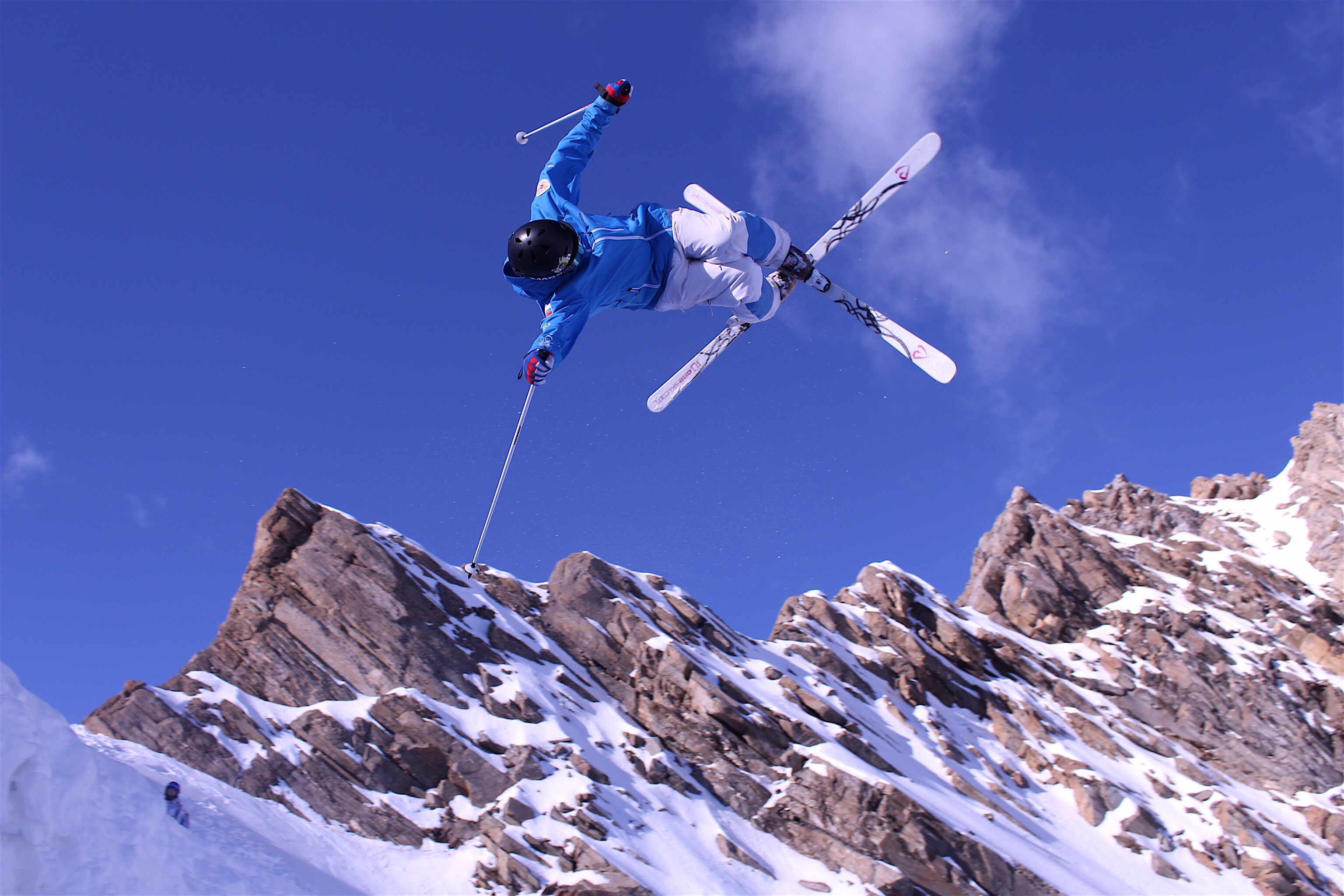 Pavlenko Alexey